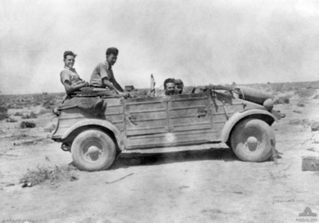 Original caption: "Four unidentified members of No 3 Squadron RAAF, pose in a captured German Volkswagen Kfz 1 light car or Kubelwagen. The vehicle is equipped with a rear mounted air-cooled engine and it has been fitted with sand tyres, with a spare fixed to the bonnet top."